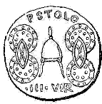 738 woodcuts illustrating the work A Dictionary of Roman Coins, Republican and Imperial (1889). To identify a coin please look at the filename to identify a page number, and check the Dictionary on numiswiki